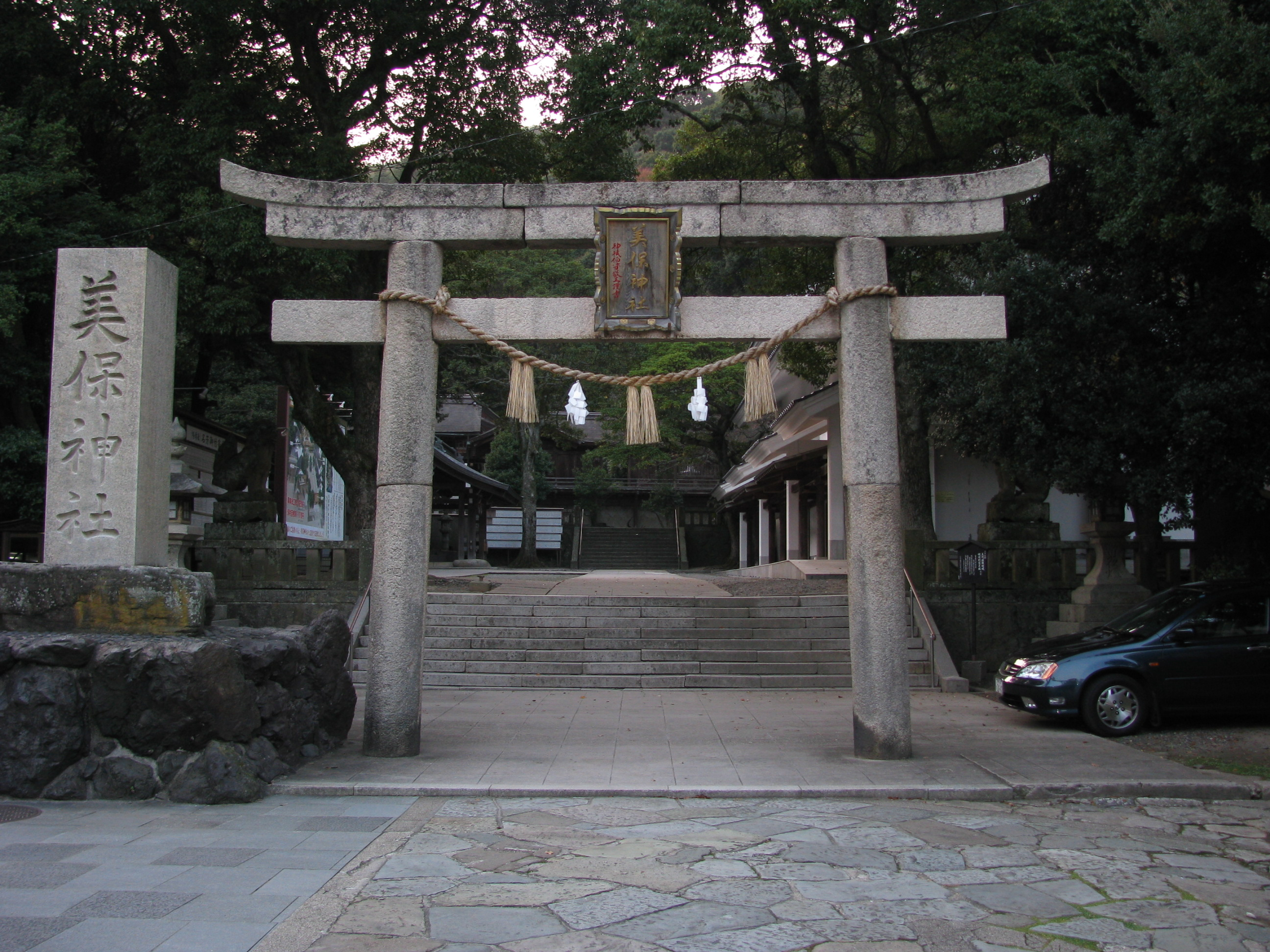 The Miho-jinja. This place is Matsue, Shimane Prefecture, Japan.